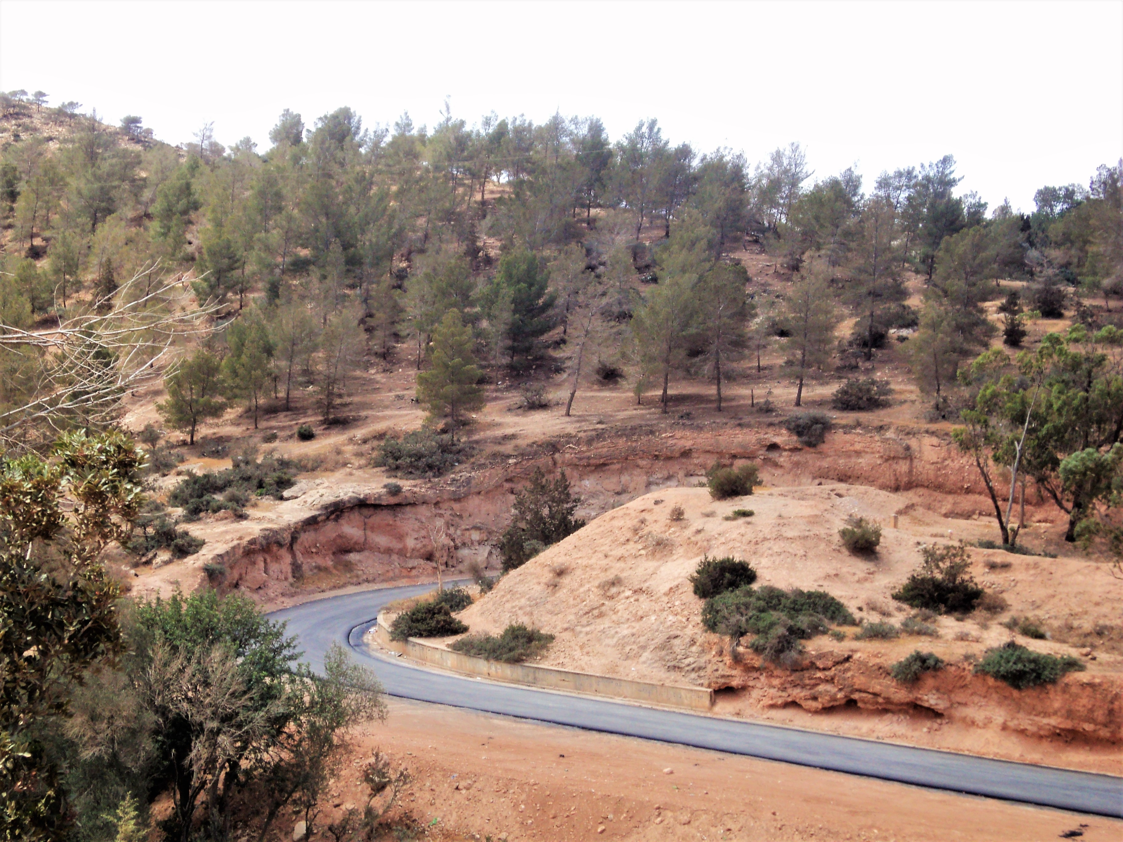 A road in the Al Bakour Escarpment (Shaliouni), in the Akhdar mountains (Jebel Akhdar) woodlands in northern 'Cyrenaica'—northeastern Libya.